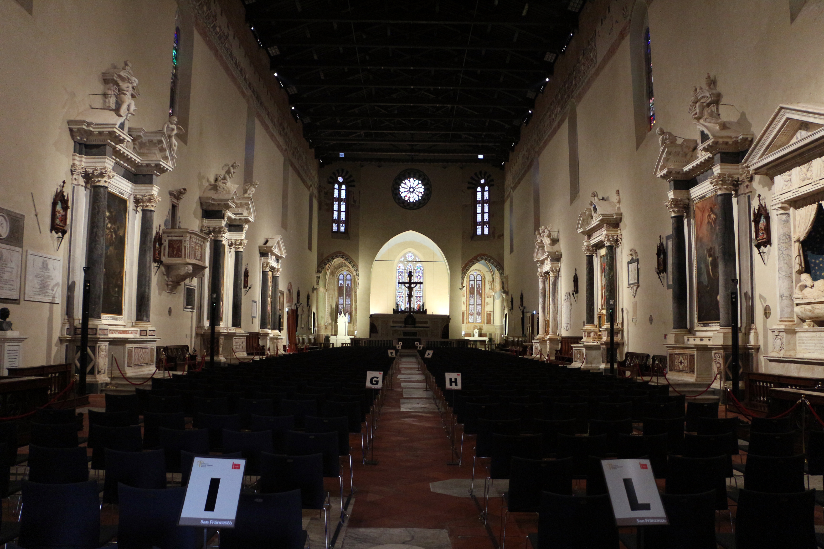 San Francesco (Lucca) - Interior